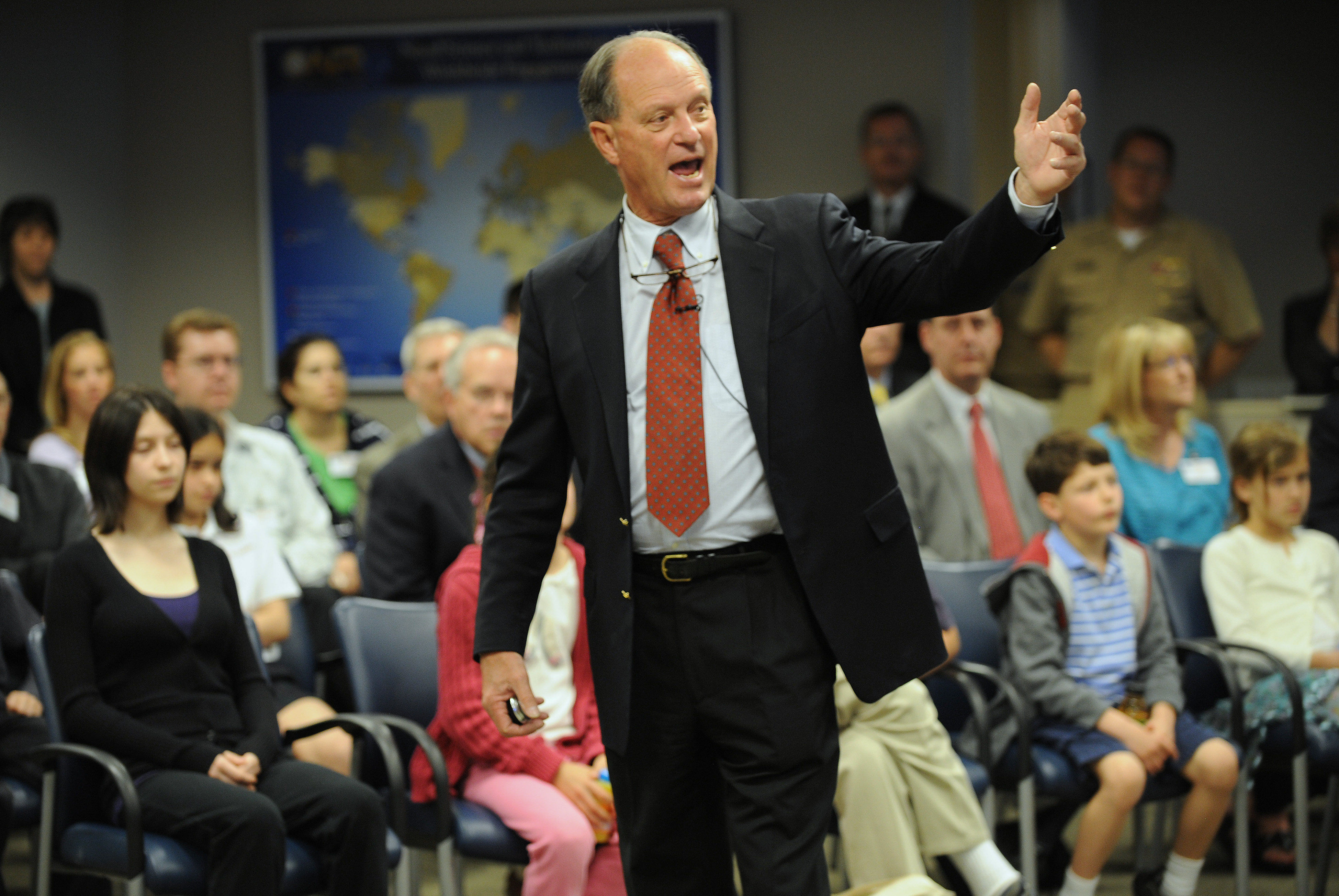 ARLINGTON, Va. (April 18, 2012) Dr. Robert Ballard, Ocean explorer and director of the Center for Ocean Exploration at the University of Rhode Island's graduate school of oceanography, visits the Office of Naval Research (ONR) and discusses the development of tele-presence technology in support of ocean exploration and science, technology, engineering and mathematics (STEM) education. Ballard is known for his exploration of the wreck of the RMS Titanic. He began his relationship with ONR as a naval reserve officer assigned as scientific liaison to ONR's branch office in Boston and assignment to the Woods Hole Oceanographic Institution. (U.S. Navy photo by John F. Williams/Released) 120418-N-PO203-093 Join the conversation navylive.dodlive.mil